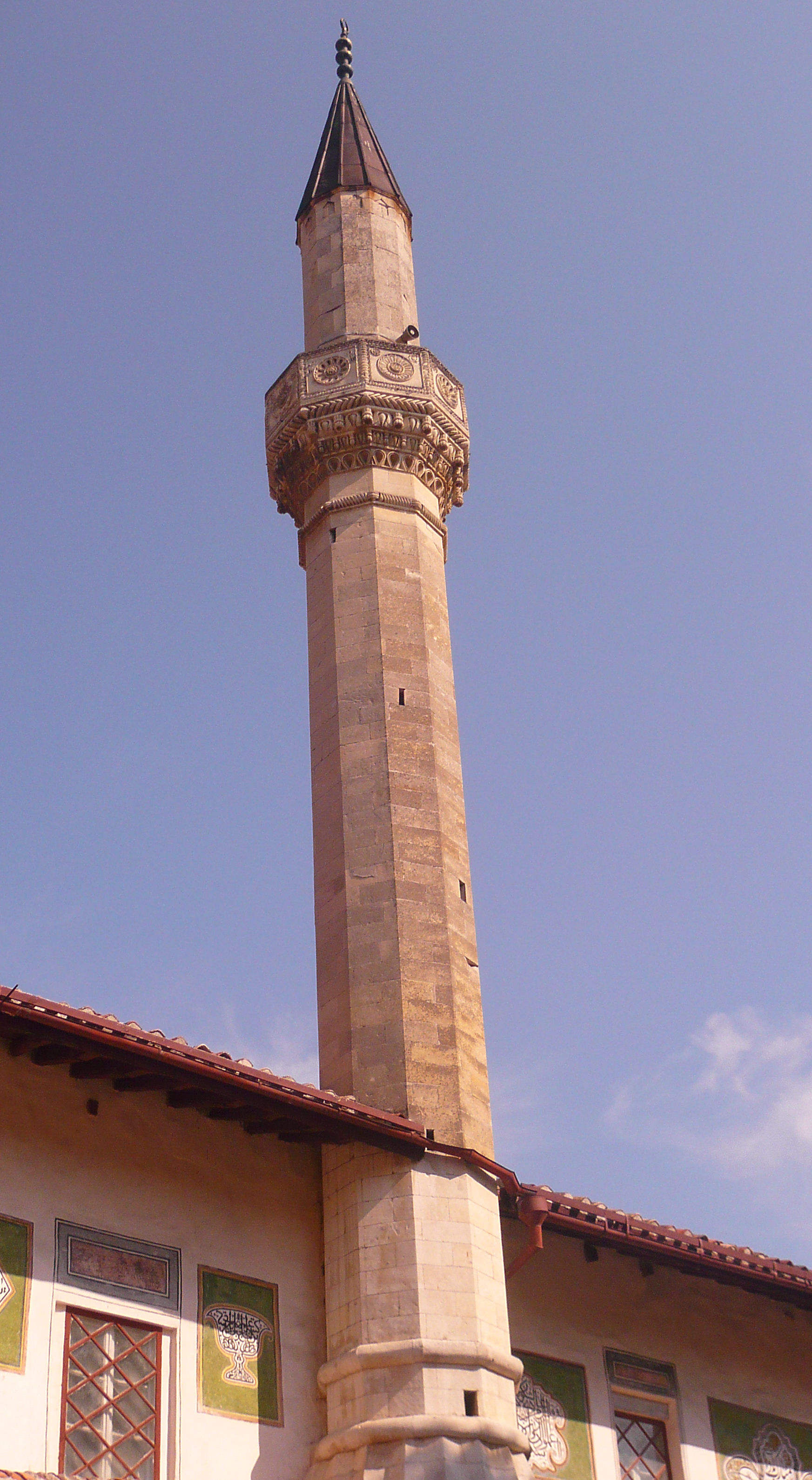 Khans Palace